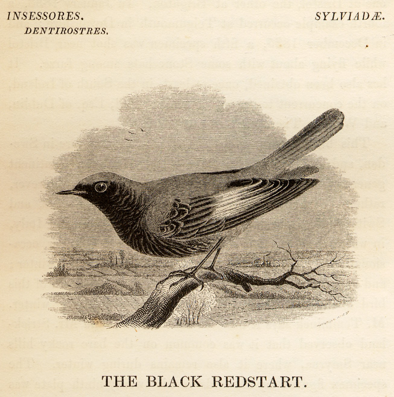 Black Redstart from Yarrell History of British Birds 1843